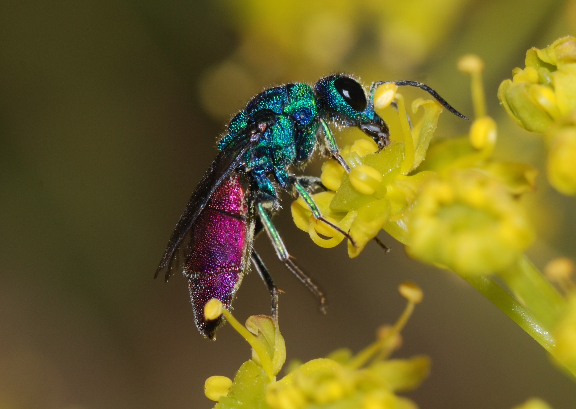 A Cucko Wasp (Chrysura refulgens)